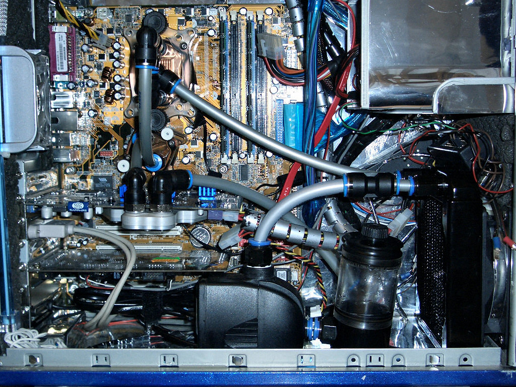 A PC-watercooling system